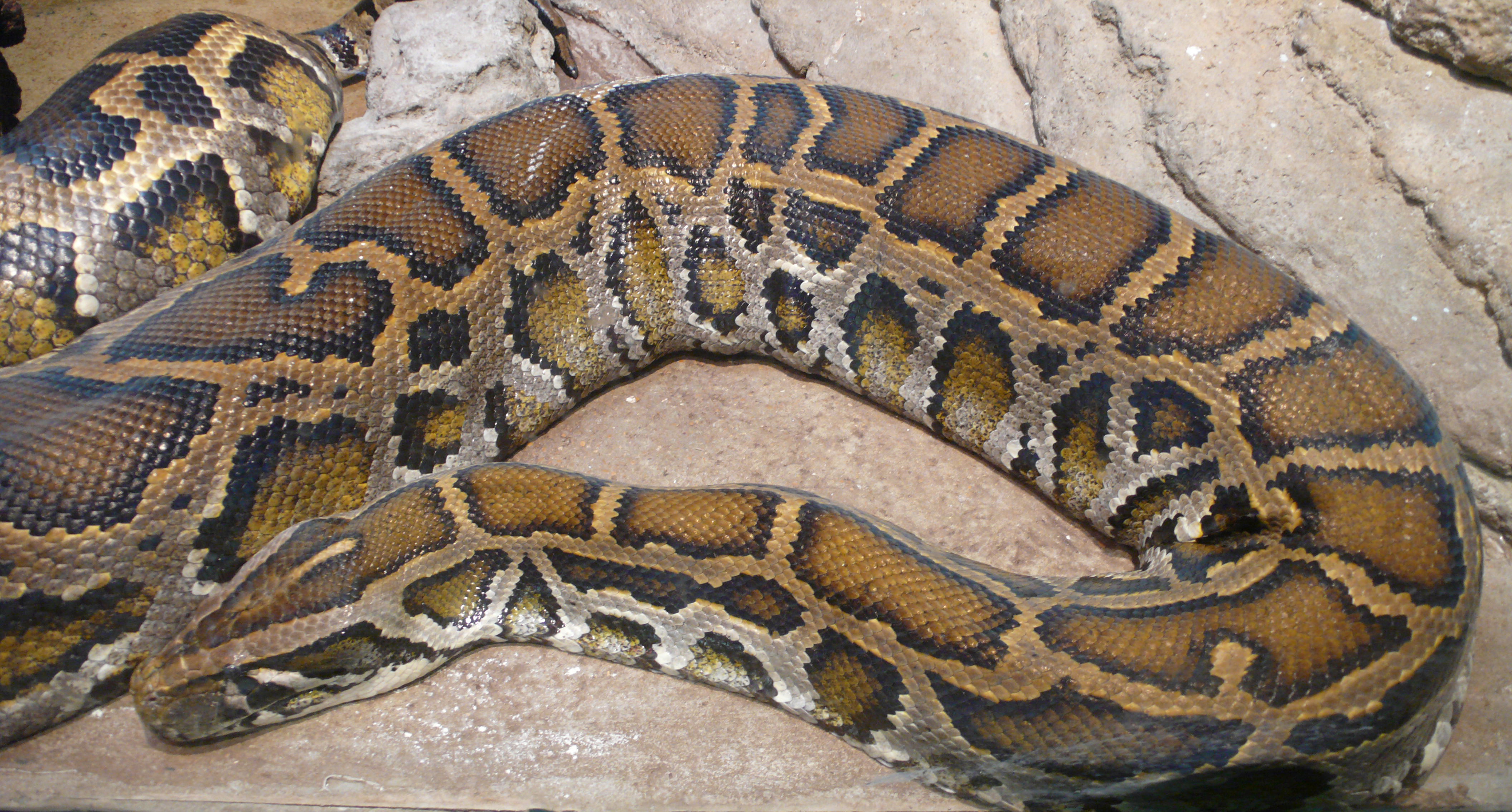 Burmese Python (Python molurus bivittatus)